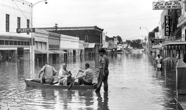 Persistent URL: Local call number: RC17014 Title: Photographers in boat after Hurricane Dora - Live Oak Date: September 1964 Physical descrip: 1 photoprint - b&w - 8 x 10 in. Series Title: Reference Collection Repository: State Library and Archives of Florida, 500 S. Bronough St., Tallahassee, FL 32399-0250 USA. Contact: 850.245.6700.